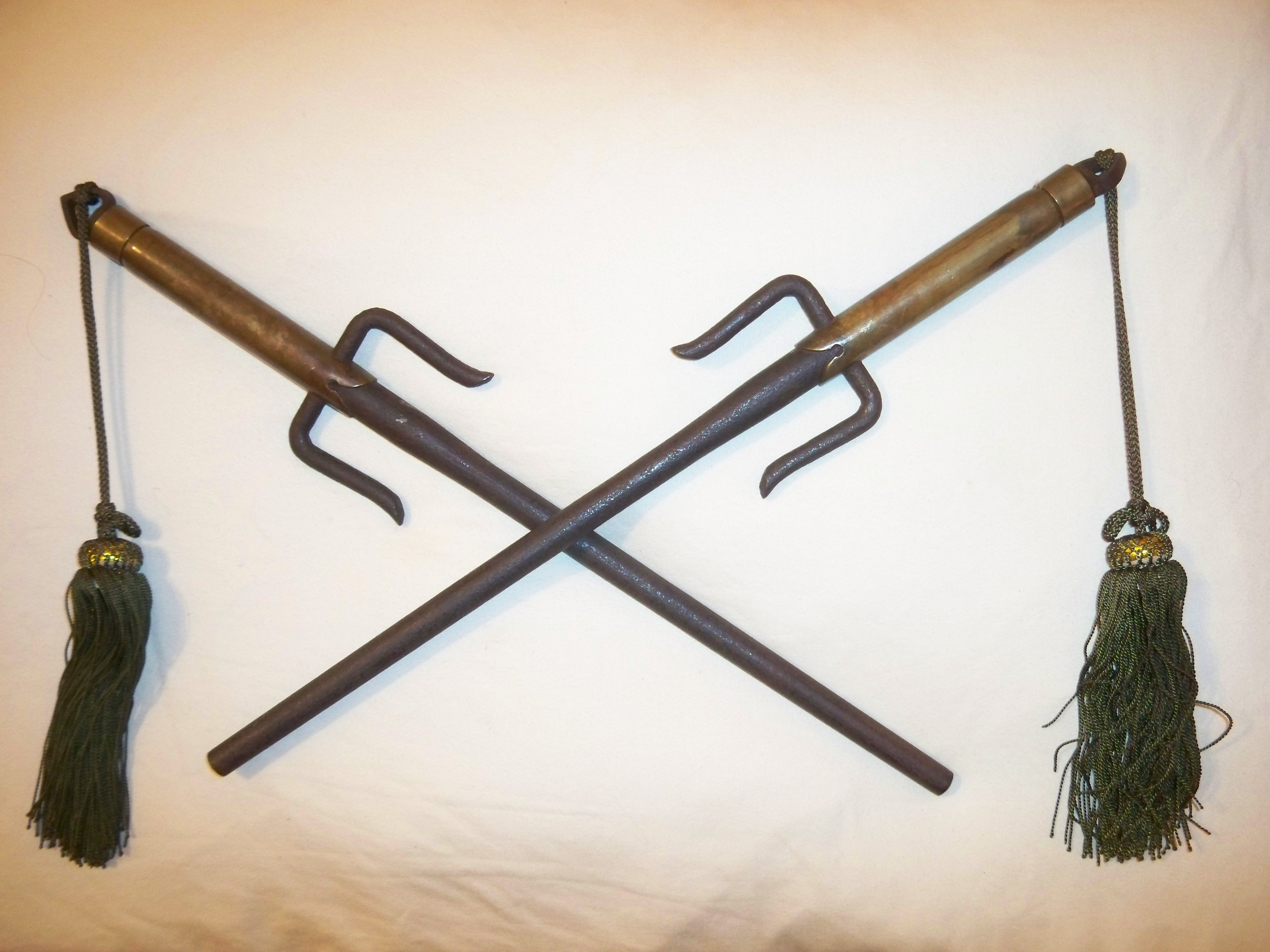 A matched pair of antique Edo period Japanese (samurai) jutte with a iron shaft boshin and two hooks kagi, similar to a sai, copper handle tuska and iron end ring kan with tassel.